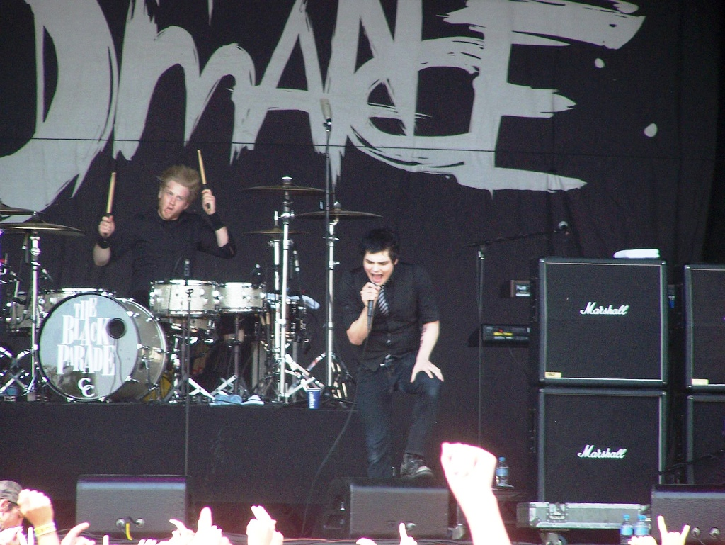 United States rock band My Chemical Romance performing at the Big Day Out music festival at Claremont showgrounds in Perth, Australia.